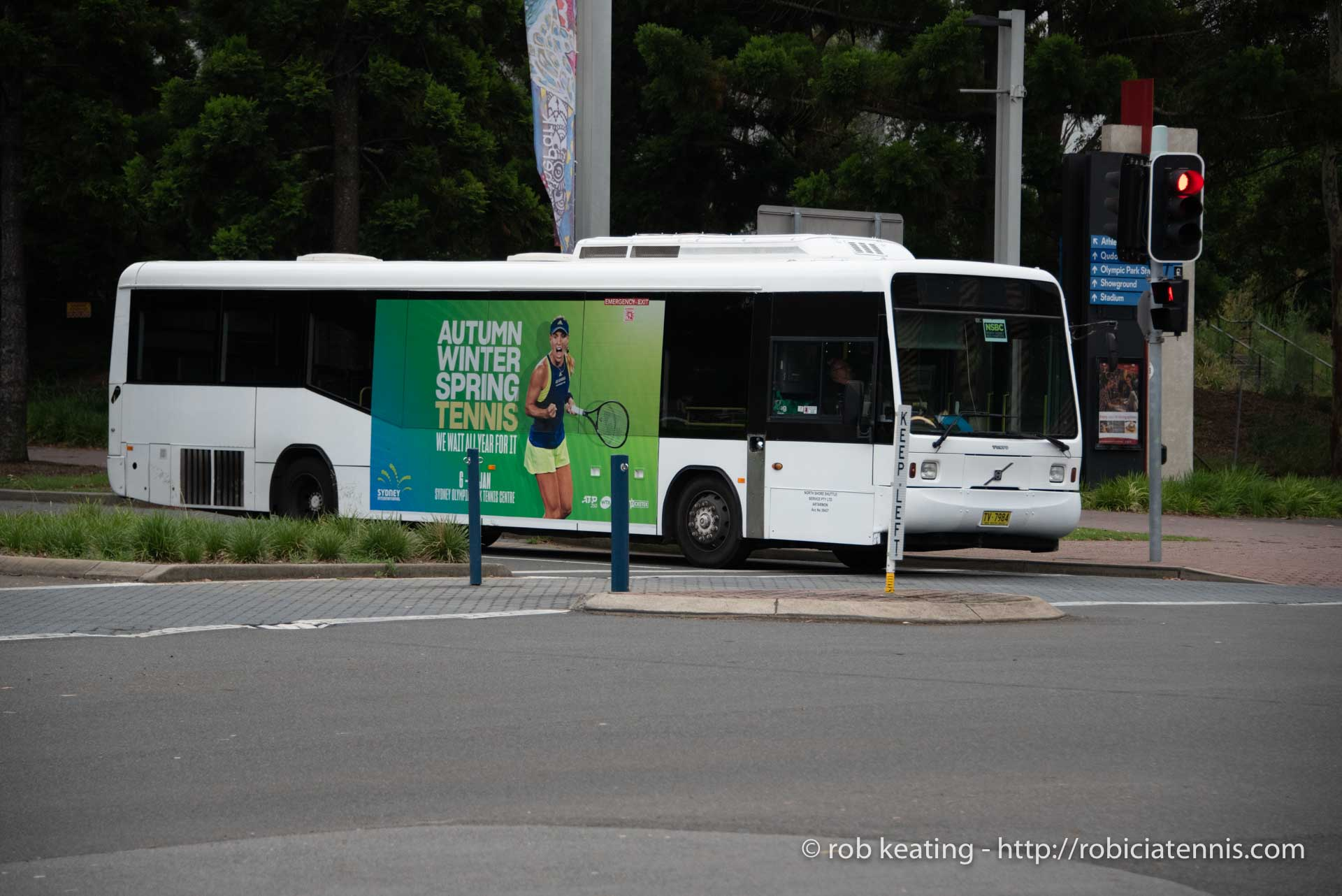 The Angie bus